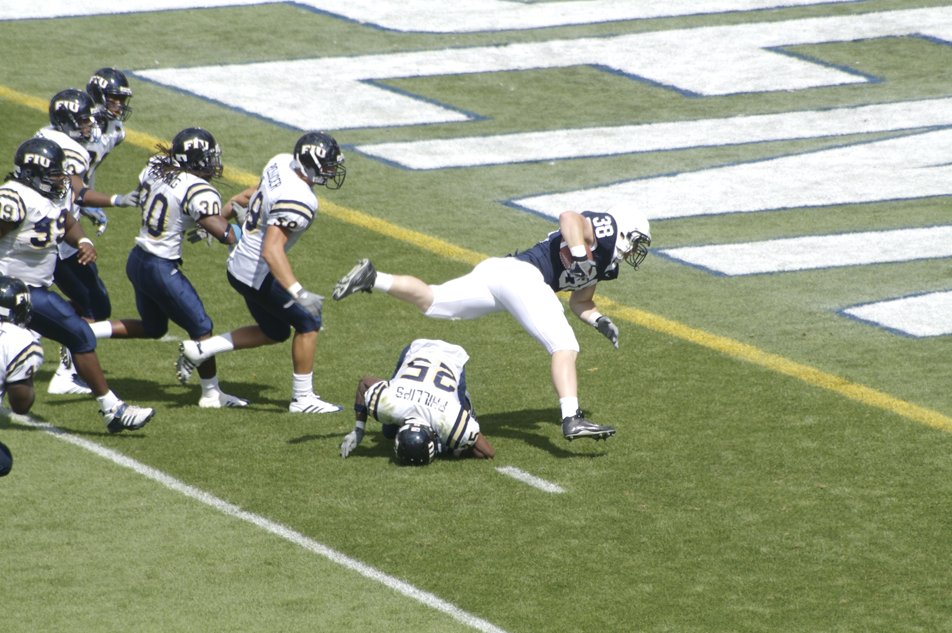 Penn State fullback Dan Lawlor hurdles a Florida International University defender to score a touchdown in the Penn State Nittany Lions' 2007 season opener.